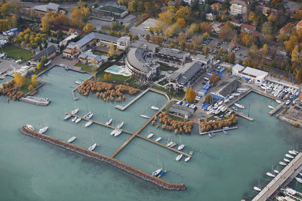 Port of Balatonfüred, Hungary, aerial photography